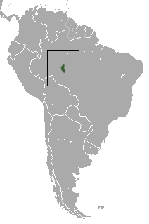 Black-headed Marmoset (Mico nigriceps) range